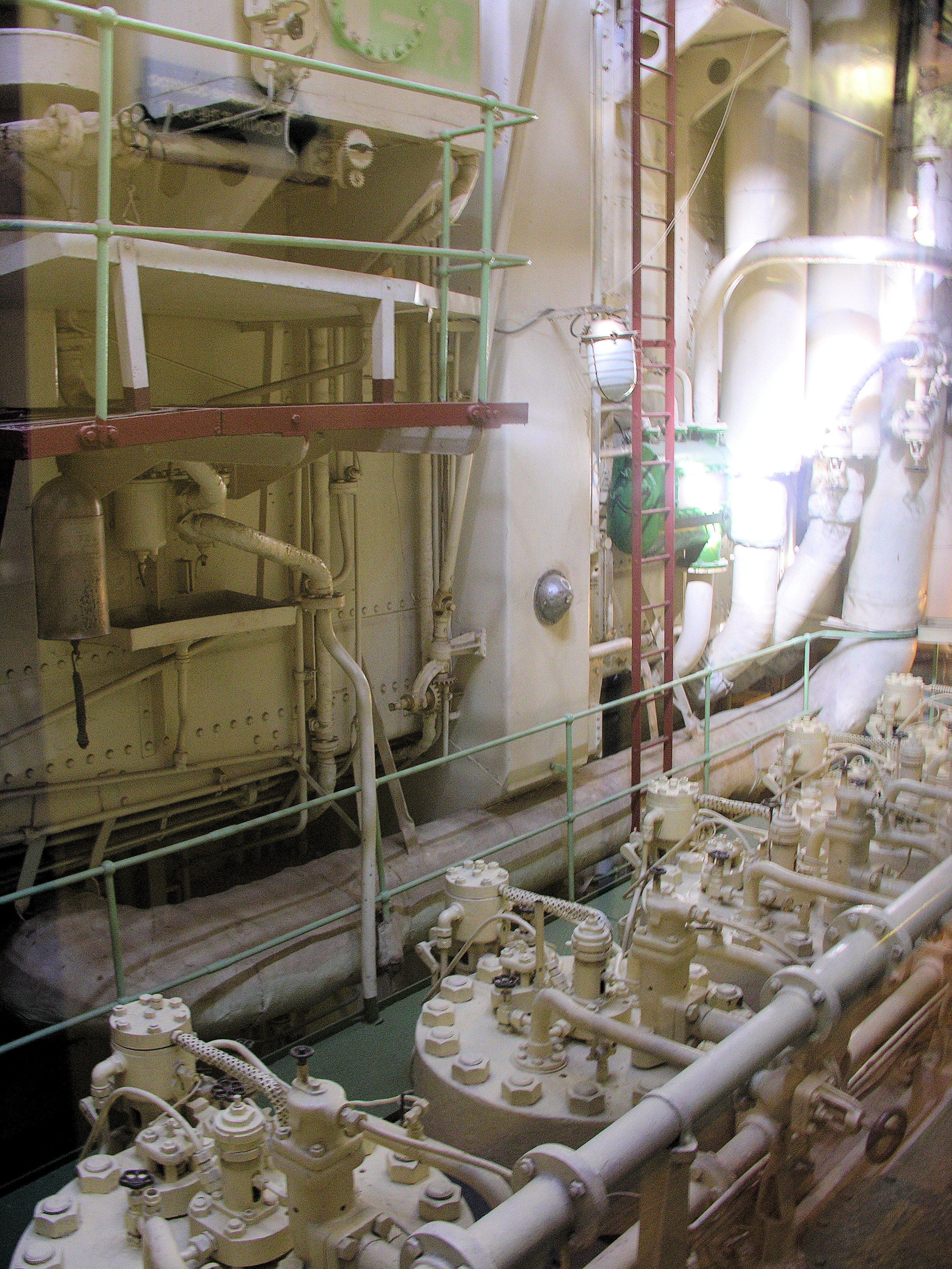 Vityaz engine room, Museum of the World Ocean, Kaliningrad.